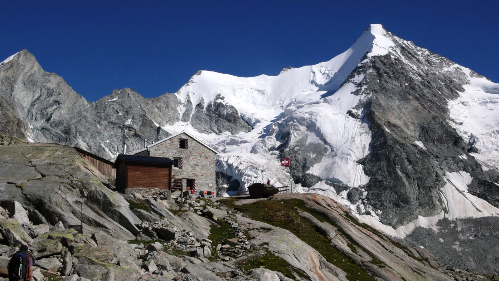 Obergabelhorn from cabane du Grand Mountet